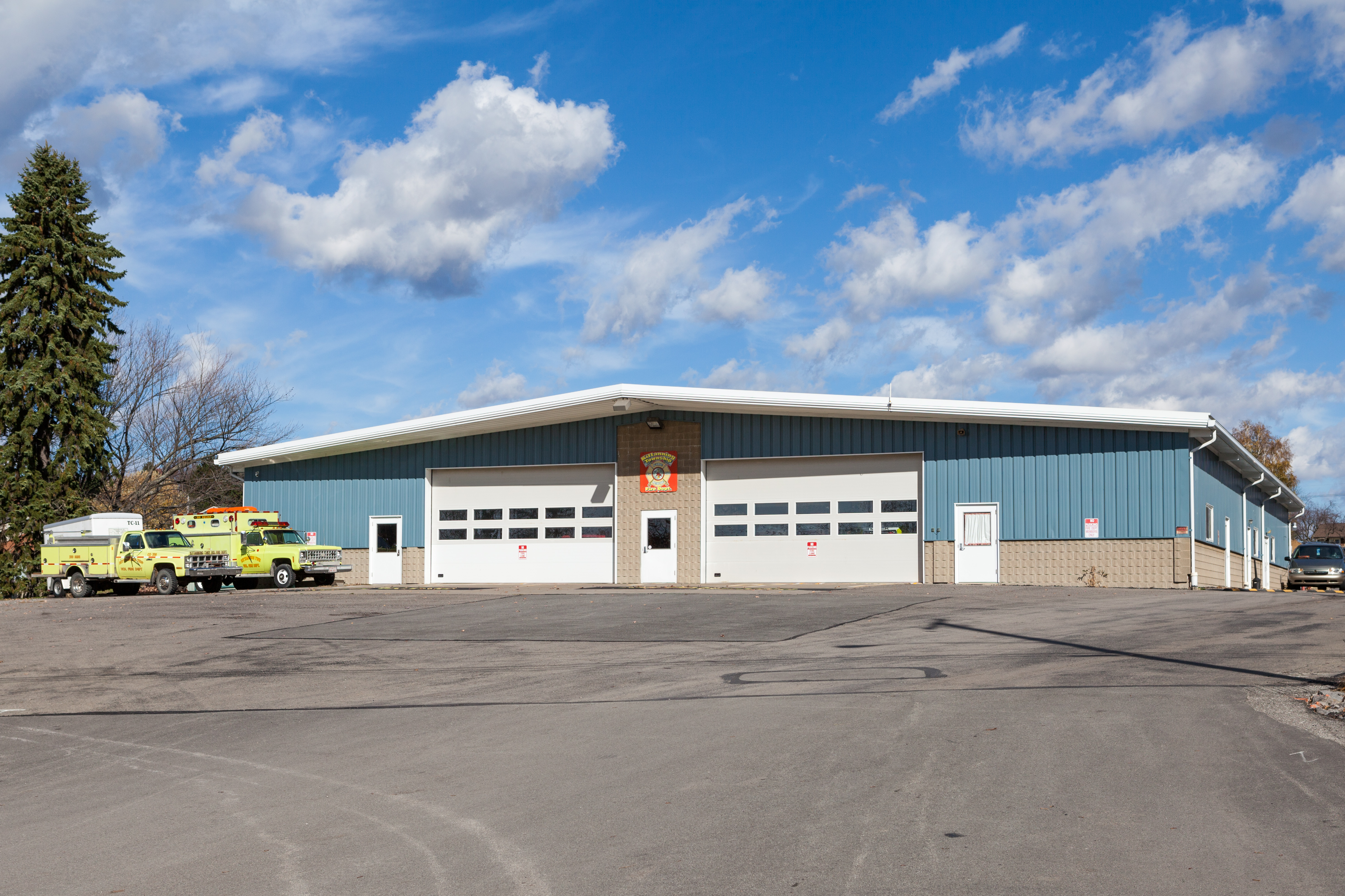 Kittanning Township Volunteer Fire Department at 13126 U.S. Route 422, Kittanning PA